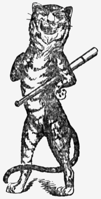 An illustration from the July 21, 1893, edition of the Nashville Banner indicative of the team's recent success